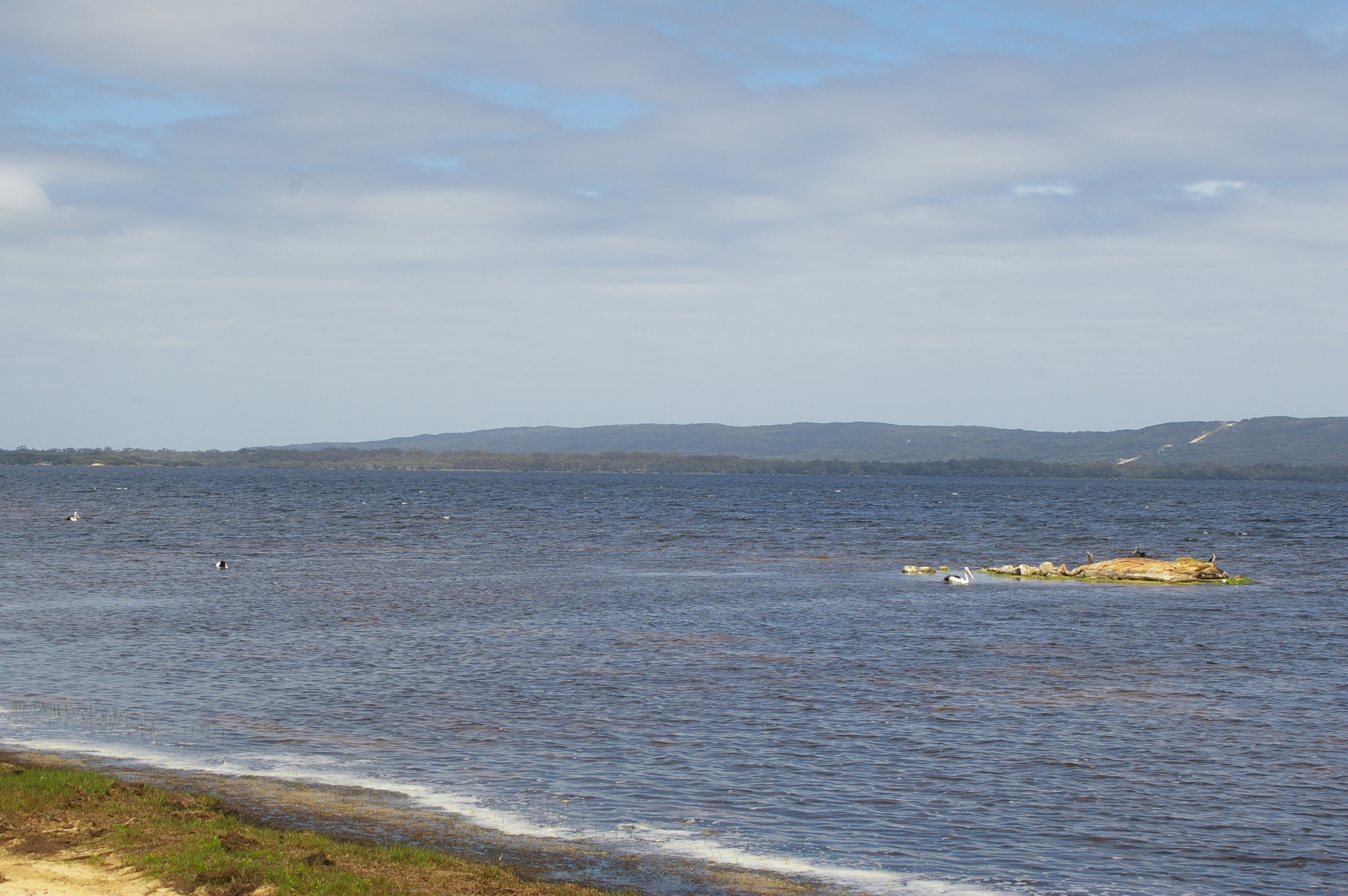 Taken from Crusoe beach facing south across the inlet Granite outcrop with pelicans and cormorants is in the foreground